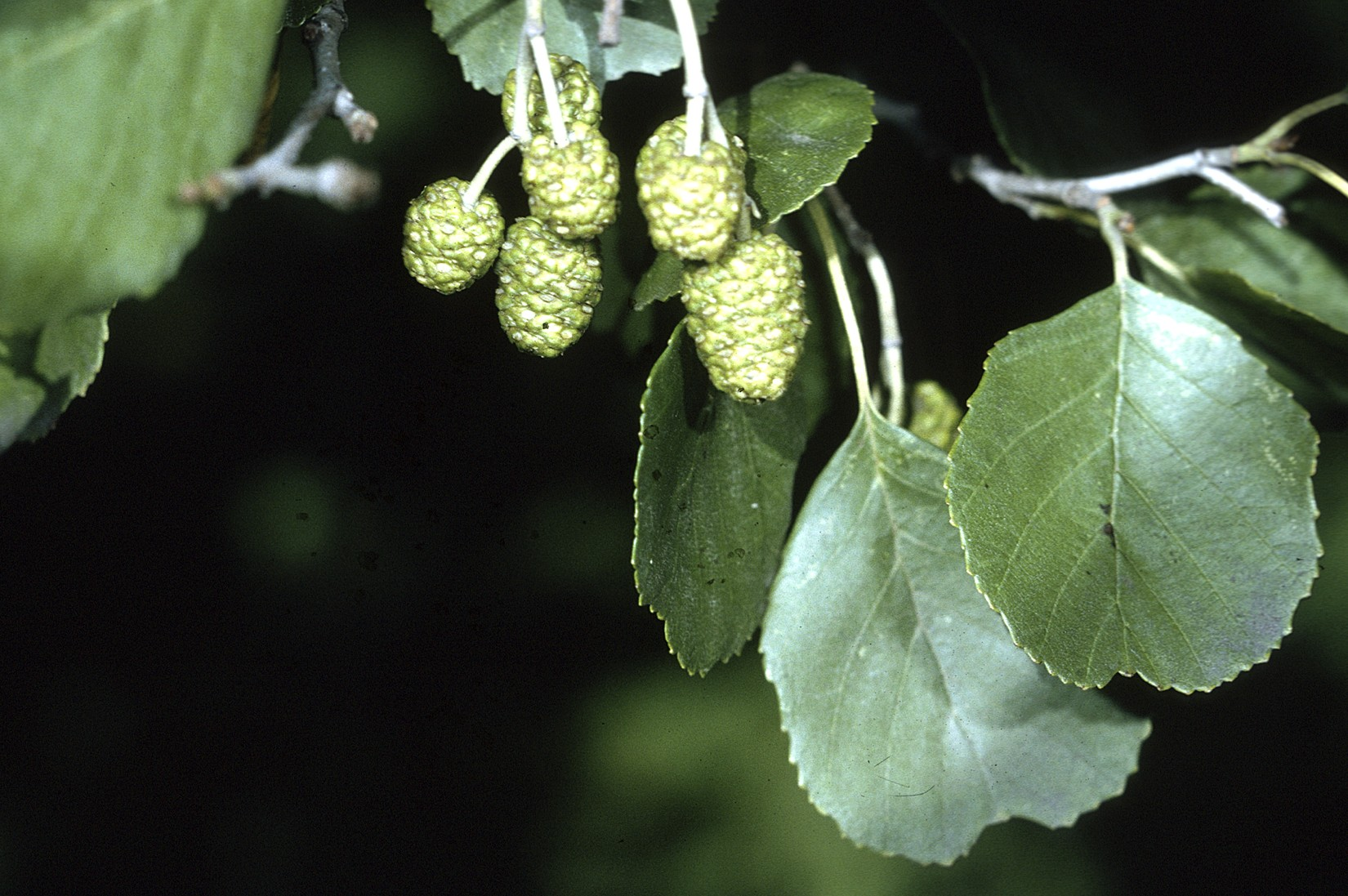 European Alder. Family Betulaceae. Photograph of female (seed) cones.